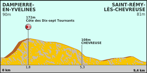 Paris-Nice 2012 Profile stage 1